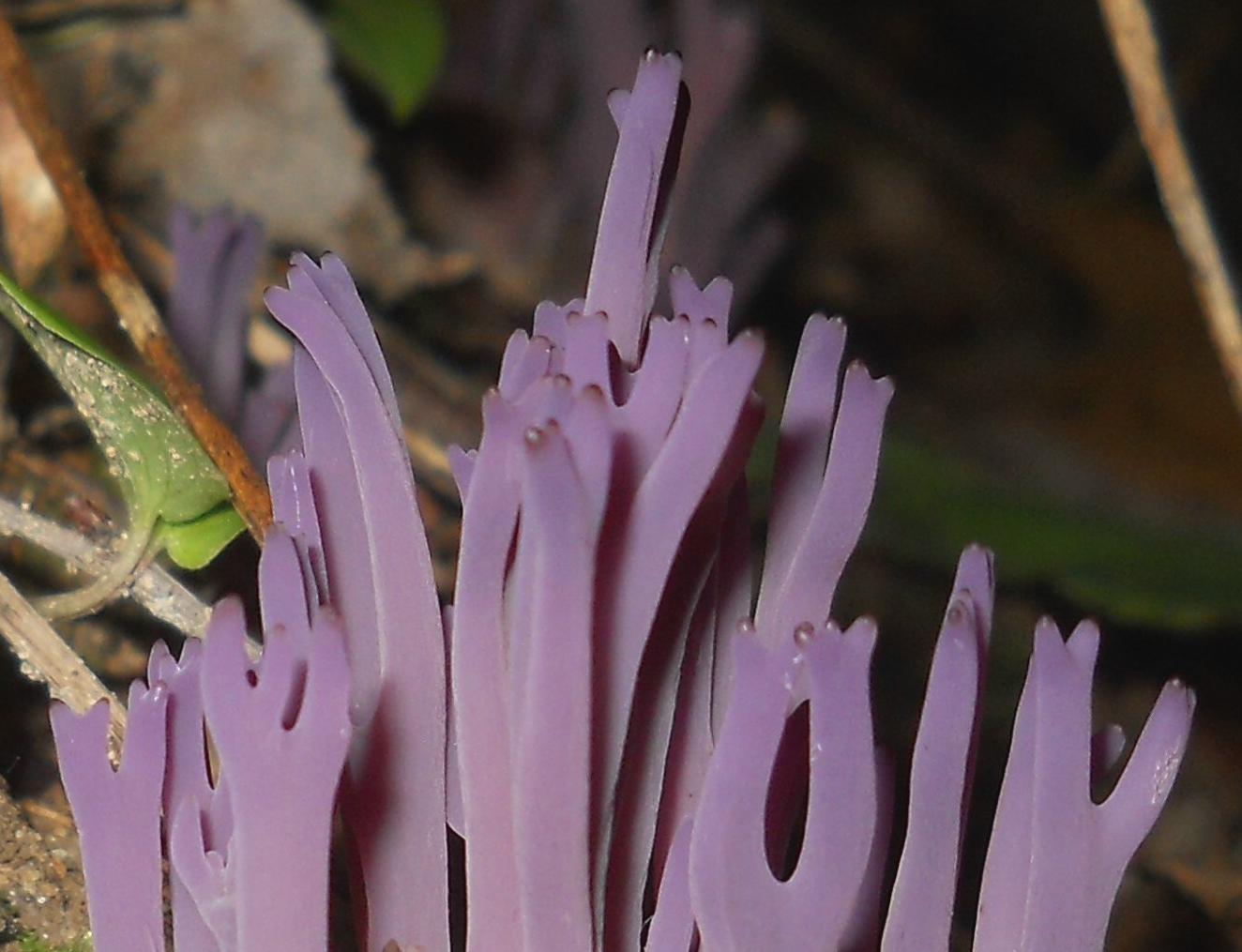 Close up up the tips of the branches of the coral fungus Clavaria zollingeri Lév., photographed in Westmoreland Co., Pennsylvania, USA. Original image cropped and brightened by uploader.